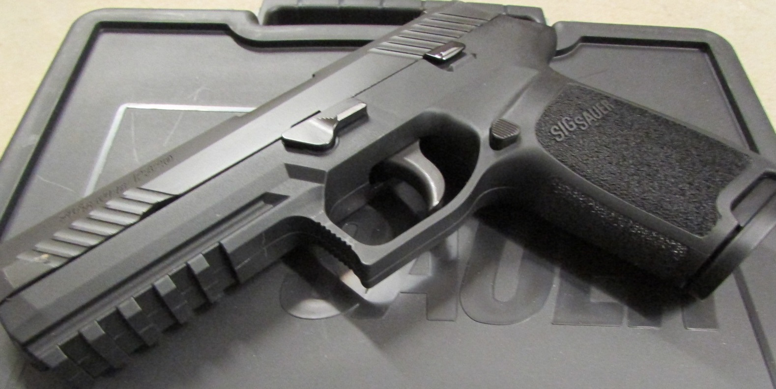 SIG Sauer P320 9mm Pistol